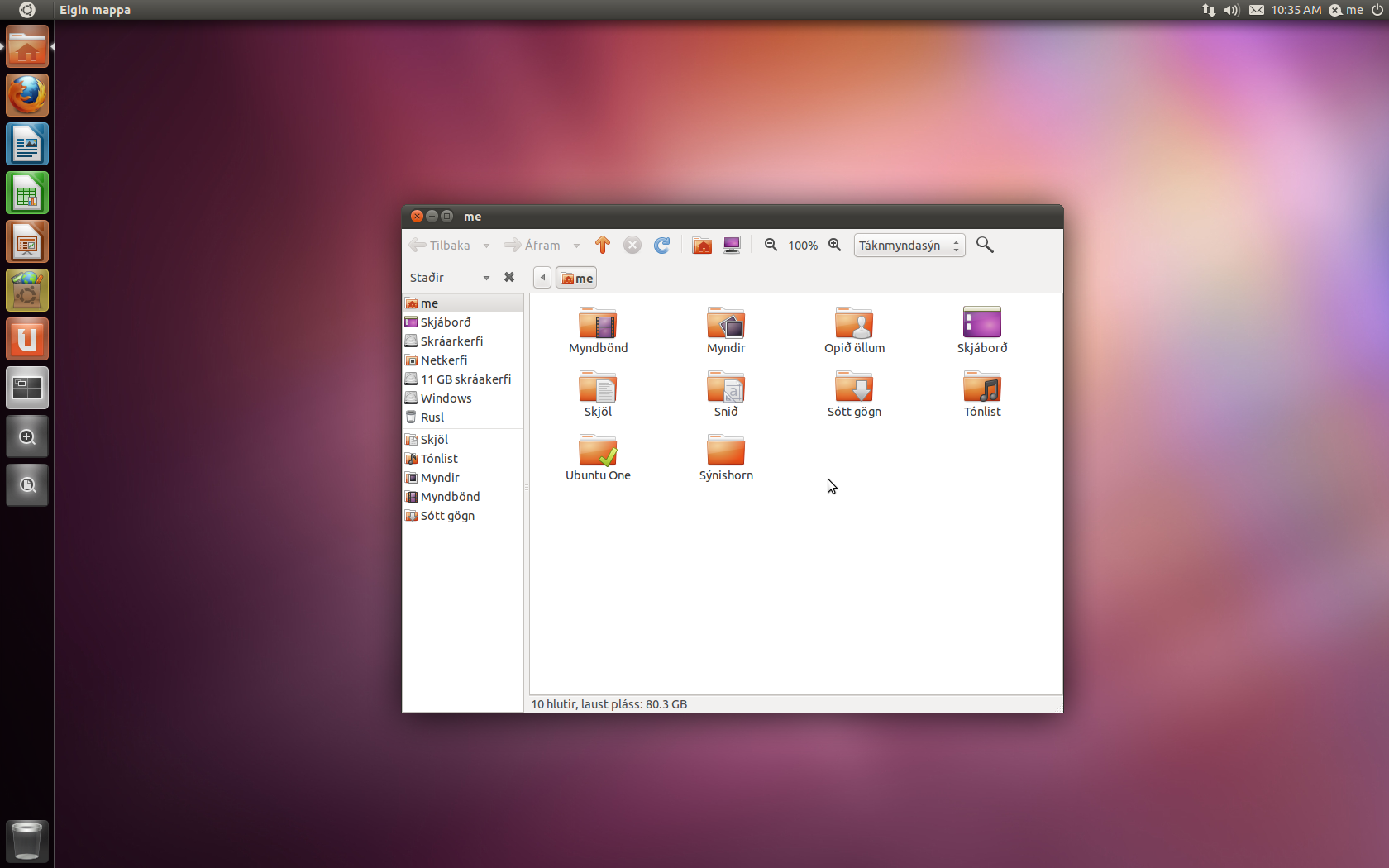 Screenshot of Ubuntu 11.04 (Natty Narwhal) in Icelandic.